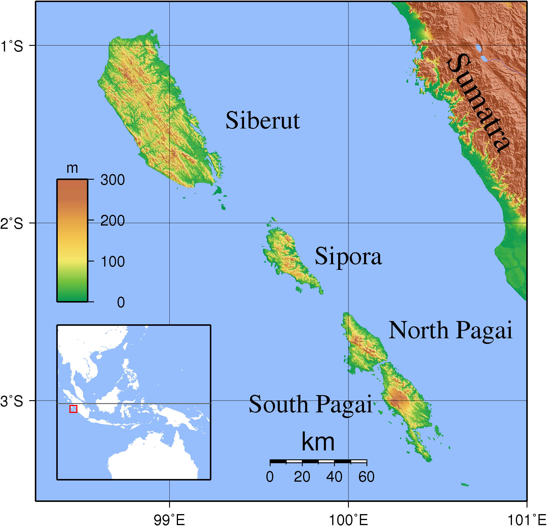 Topographic map of Mentawai Islands, Indonesia. Created with GMT from SRTM data.